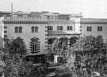 The Kyriazi Freres Factory in Egypt. The original factory was located in a purpose-built building in the European quarter of Cairo, and specifically, in the Souk El Tewfikia. This area was a mix of residential, commercial and diplomatic establishments. The red and beige building and its garden occupied 3000 square meters (32,200 square feet). The Kyriazi Freres factory was, and still is a famous landmark building. The Cairo Times write that "... the place is just as lively today as it was during Kyriazi Pasha's days". This version has a periodic dot pattern removed (due to scanning half-tone w/o descreening)